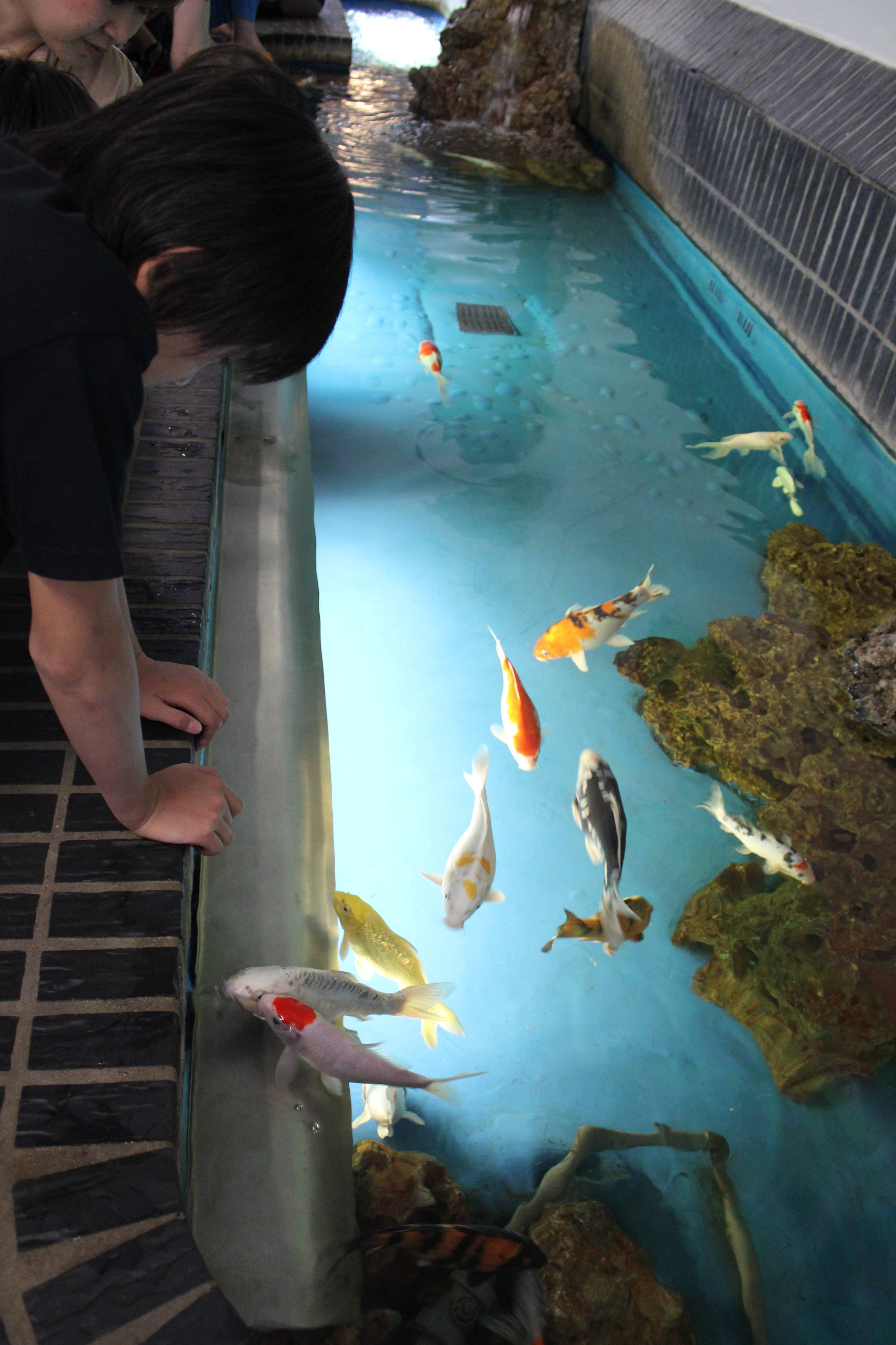 Aquarium Berlin Nishikigoi